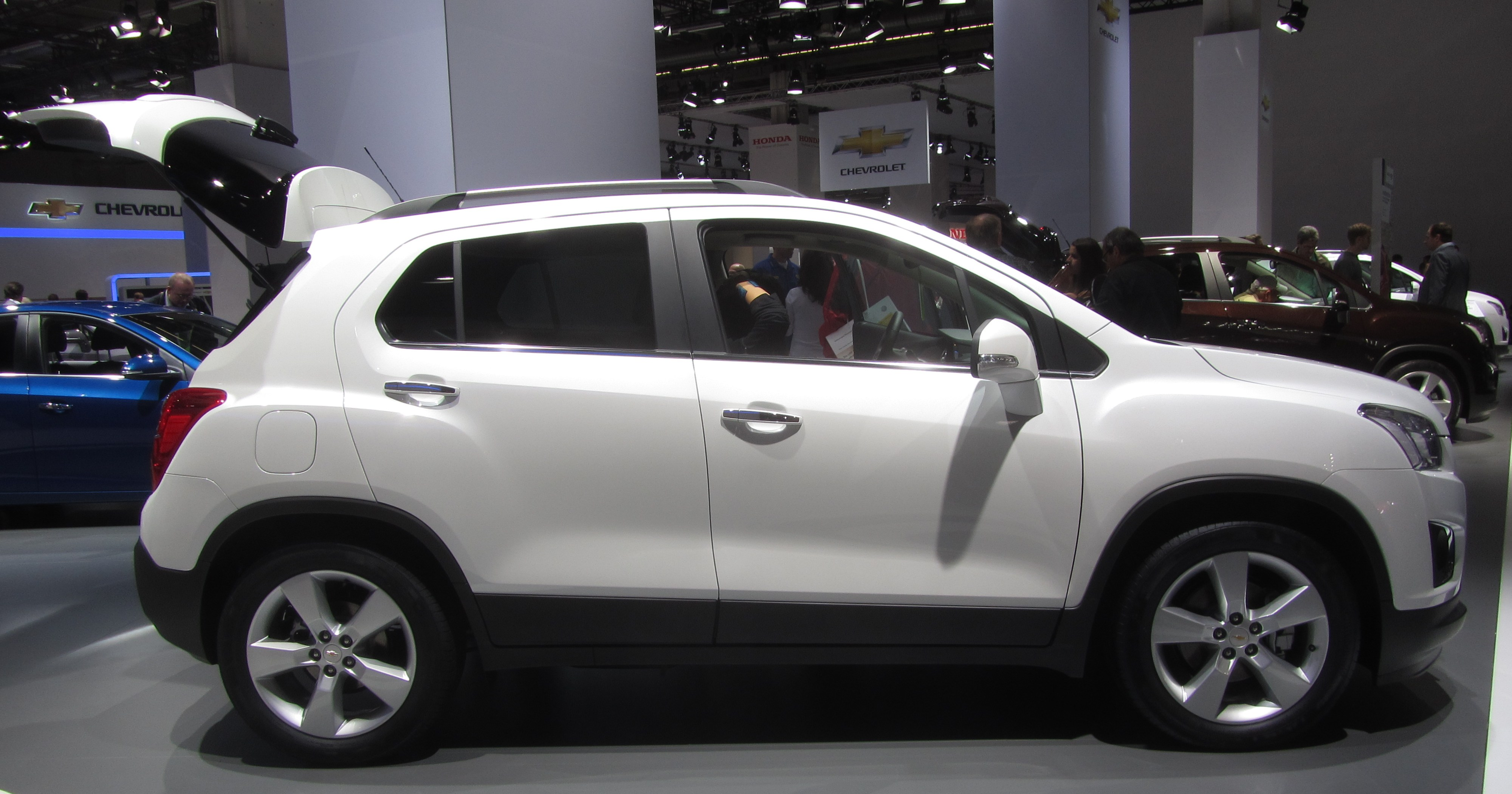 Right side view with open hatch of a Chevrolet Trax seen at the IAA 2013 (aka 'Frankfurt Motor Show')